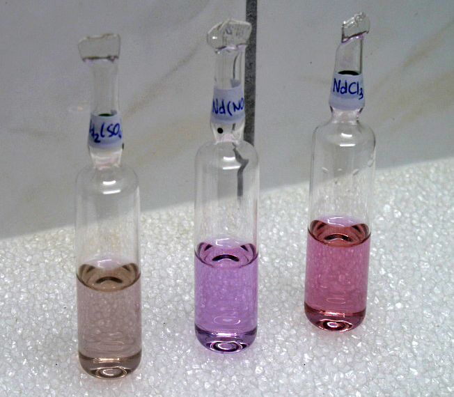 Neodymium sulfate, nitrate, and chloride solutions in white TL light